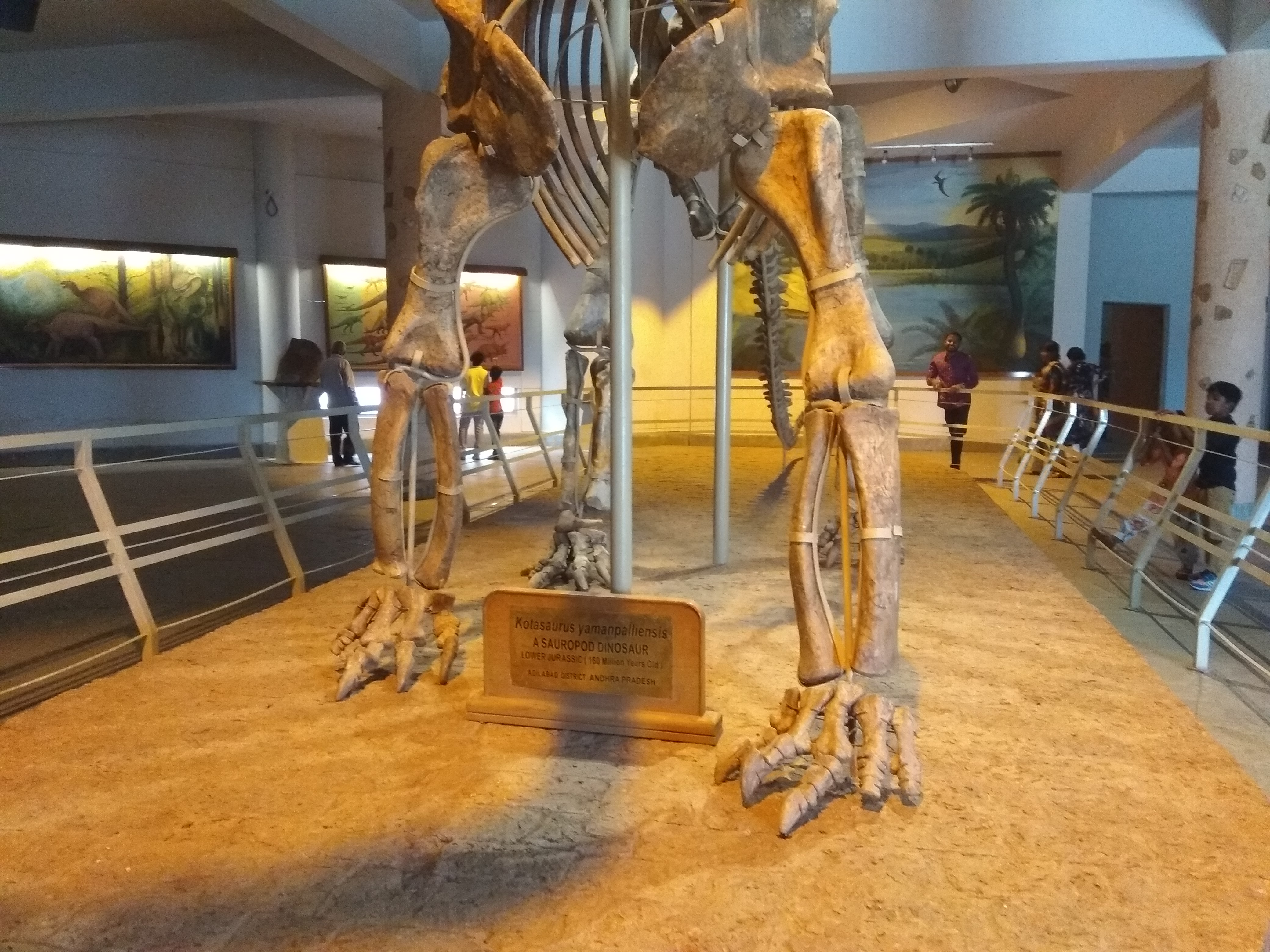 Kotasauraus adilabad